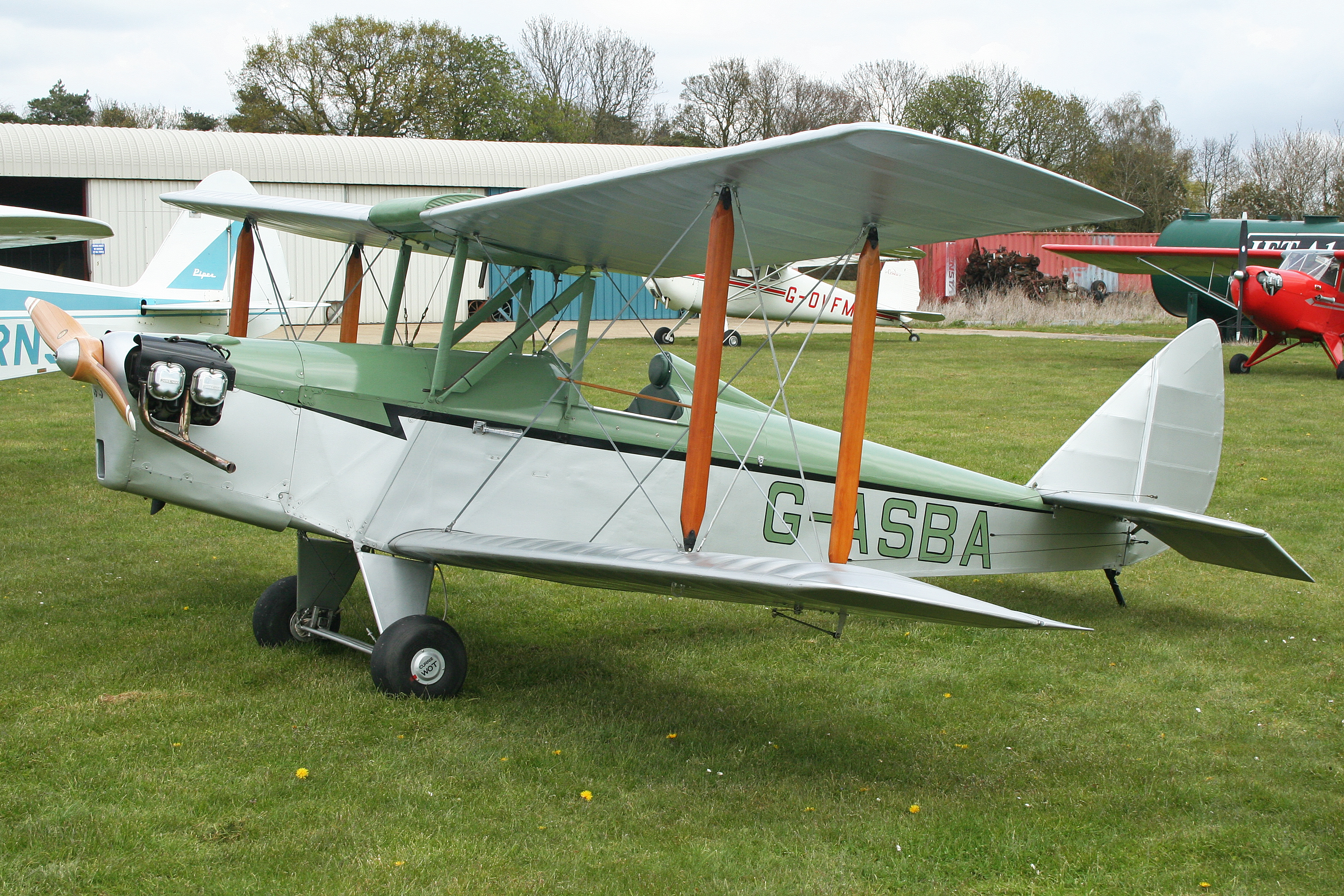 msn AE-1. A visitor at the 2012 VAC and Daffodil Fly-in. Fenland Airfield. 14-4-2012